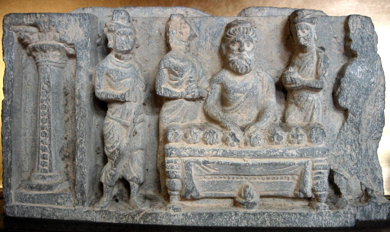 The sharing of the relics of the (Buddha). Greco-Buddhist art of Gandhara, 2-3rd century CE. ZenYouMitsu Temple (善養密寺), Setagaya, Tokyo. Personal photograph, 2005. Released in the Public Domain.